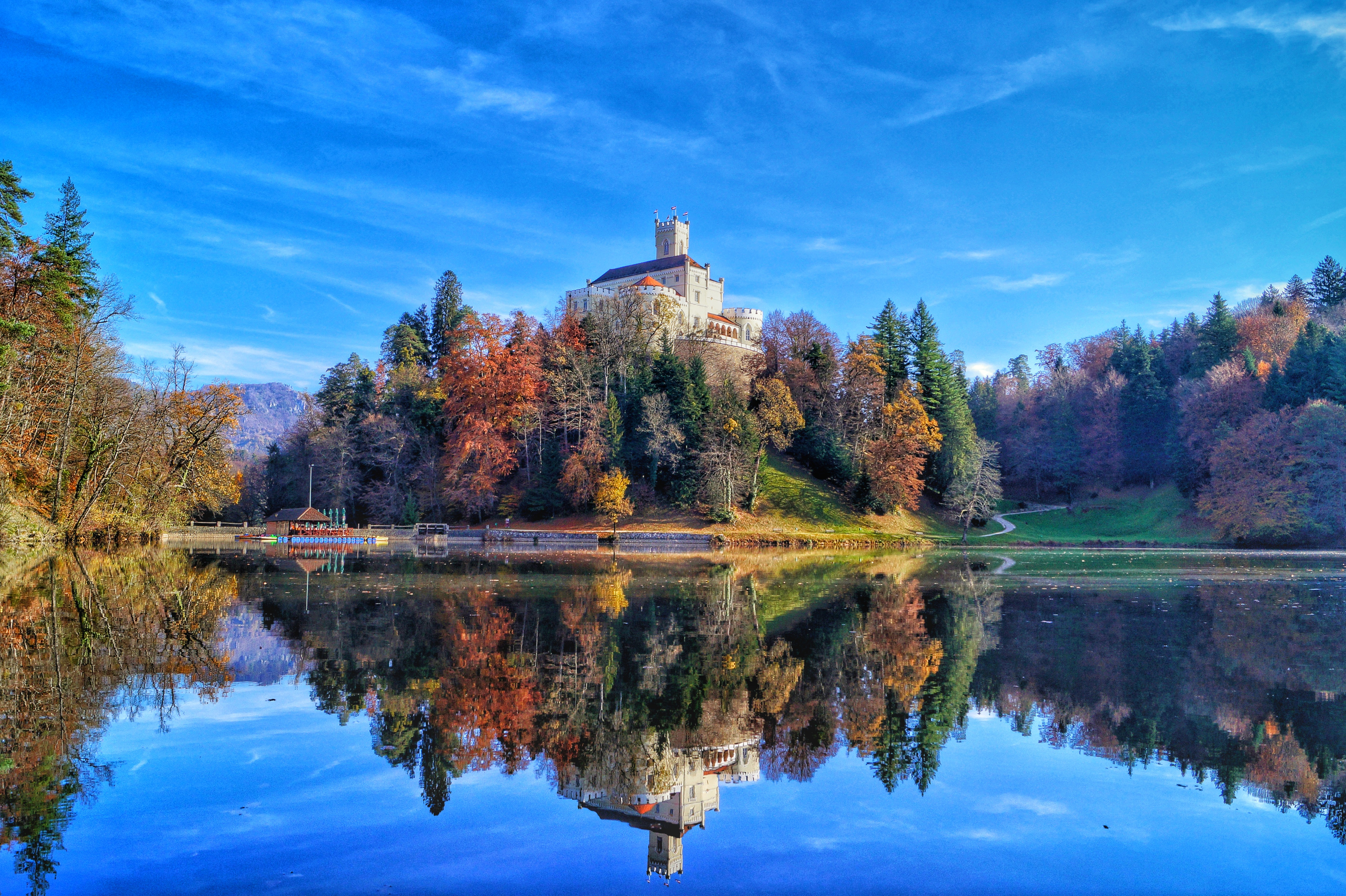 Lake Castle Trakoscan This is a a photo of a natural area in Croatia with ID: PF02